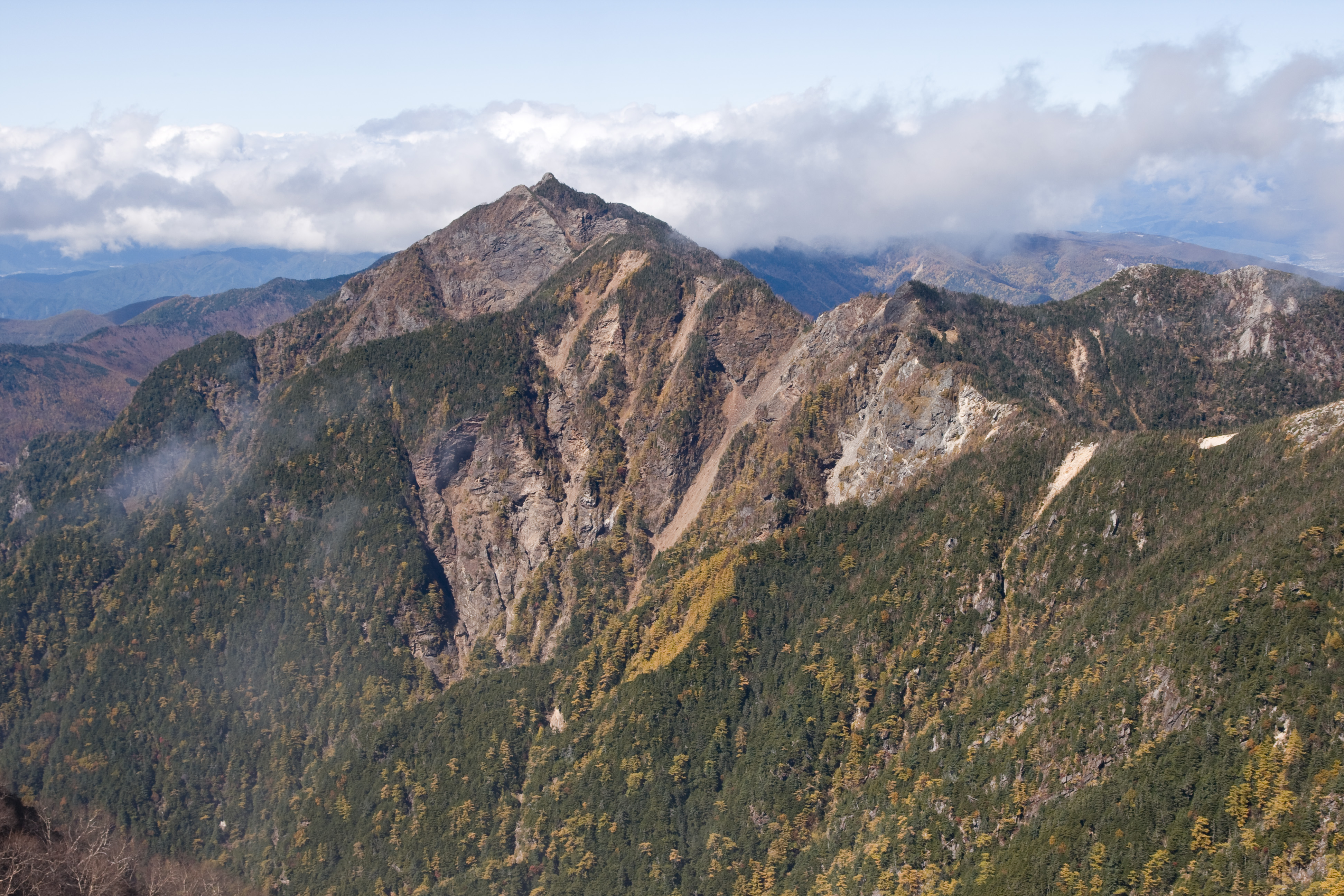 Mount Nokogiridake(2685m), Akaishi Mountains, Yamanashi and Nagano, Honshu, Japan.